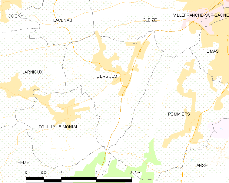 Map of French municipality